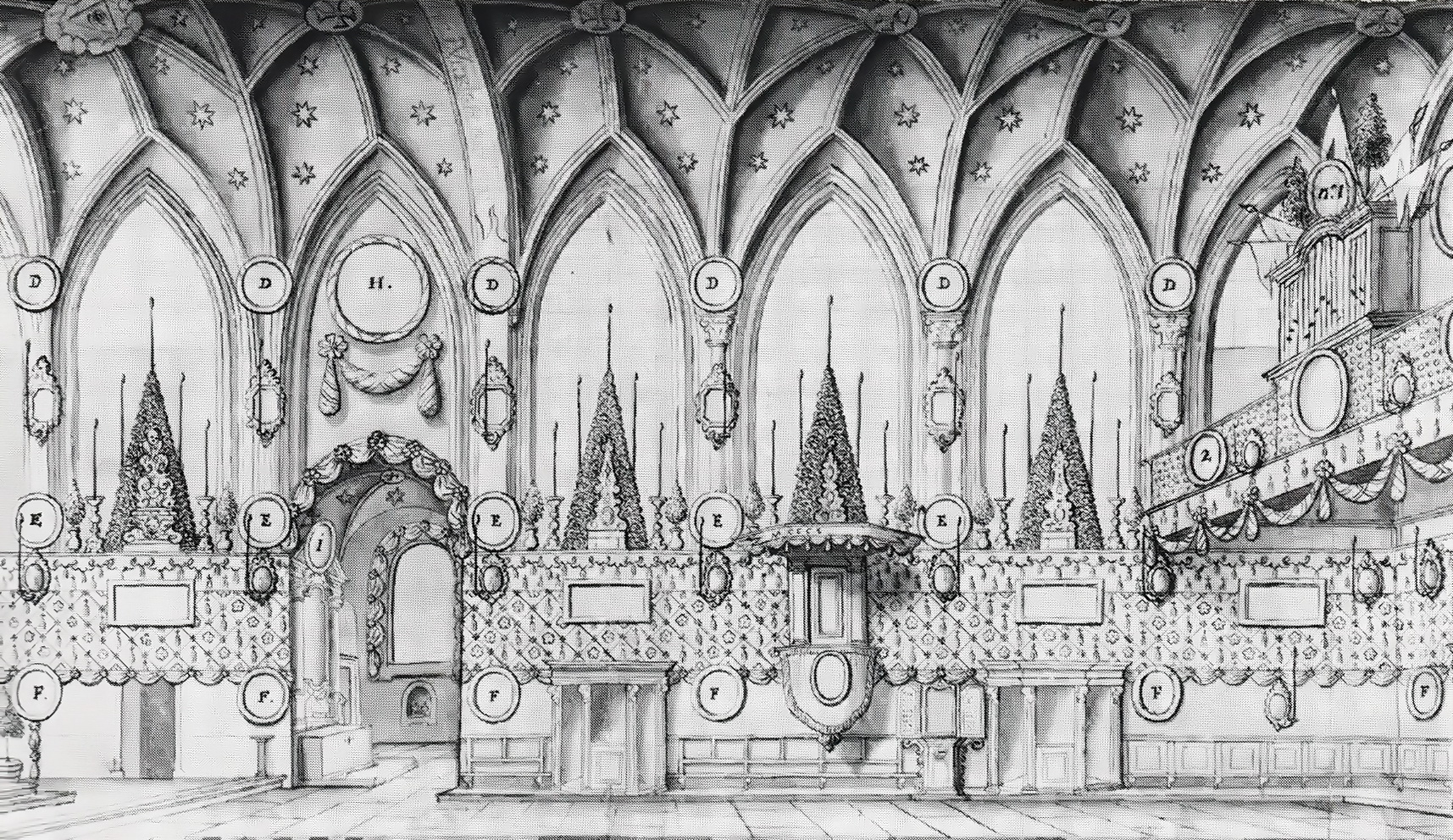 Interior of the chapel of the Beghards (Bogaardenklooster) in Maastricht, the Netherlands. The decorations are from the centennial celebrations of the Archconfraternity of the Most Sacred Trinity in 1746.